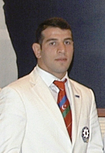 Elnur Mammadli.